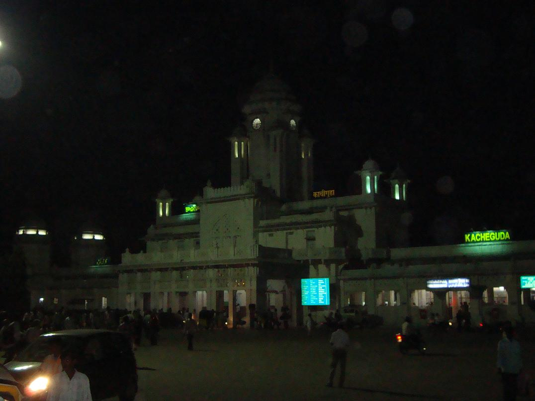 Kacheguda Railway station at night